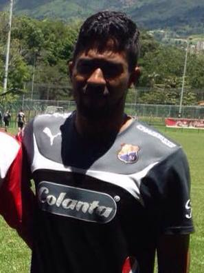 Cristian Marrugo